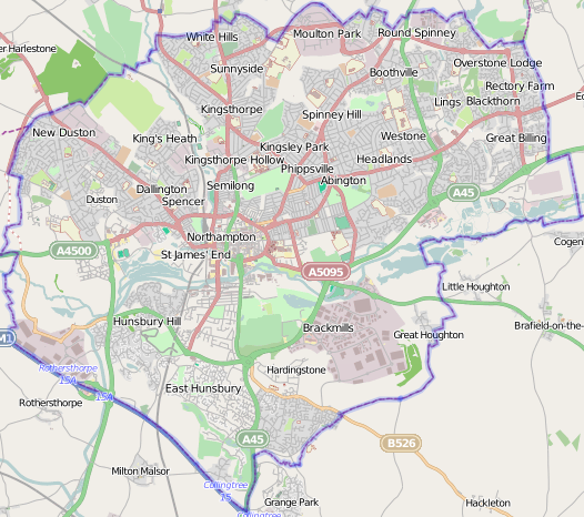 This map may be incomplete, and may contain errors. Don't rely solely on it for navigation.